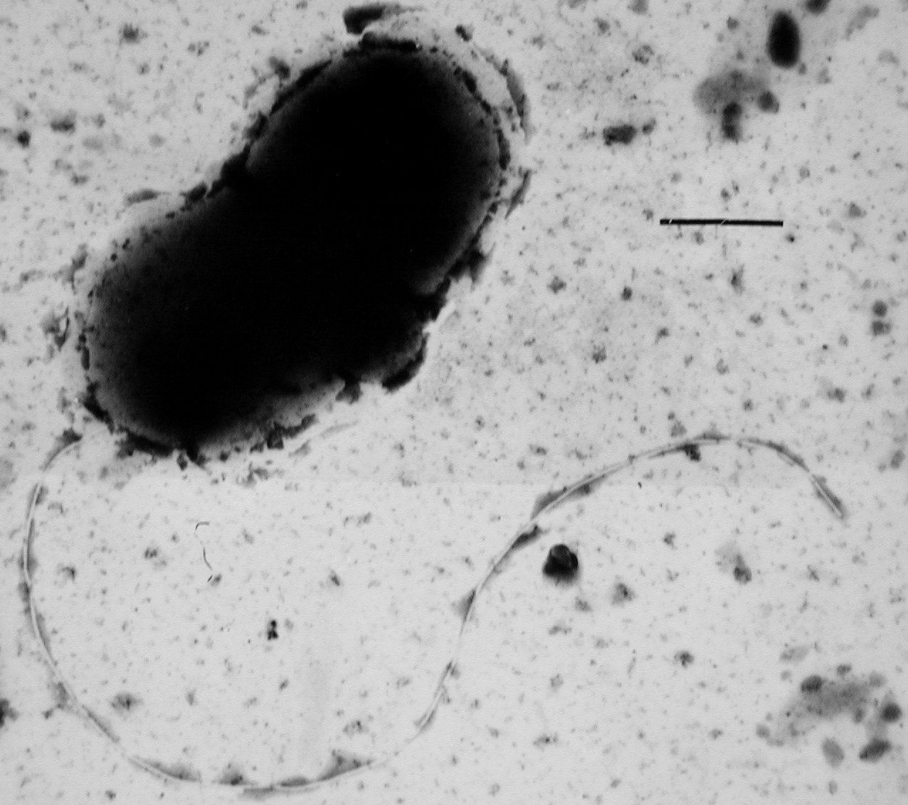 transmission electron micrograph of bacterium; Desulfovibrio vulgaris bar = 0.5 microns I am creator